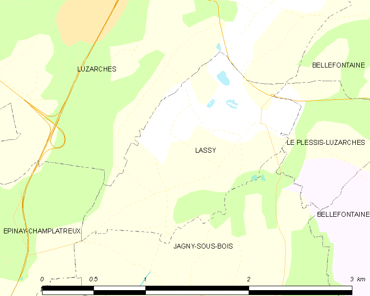 Map of French municipality Lassy